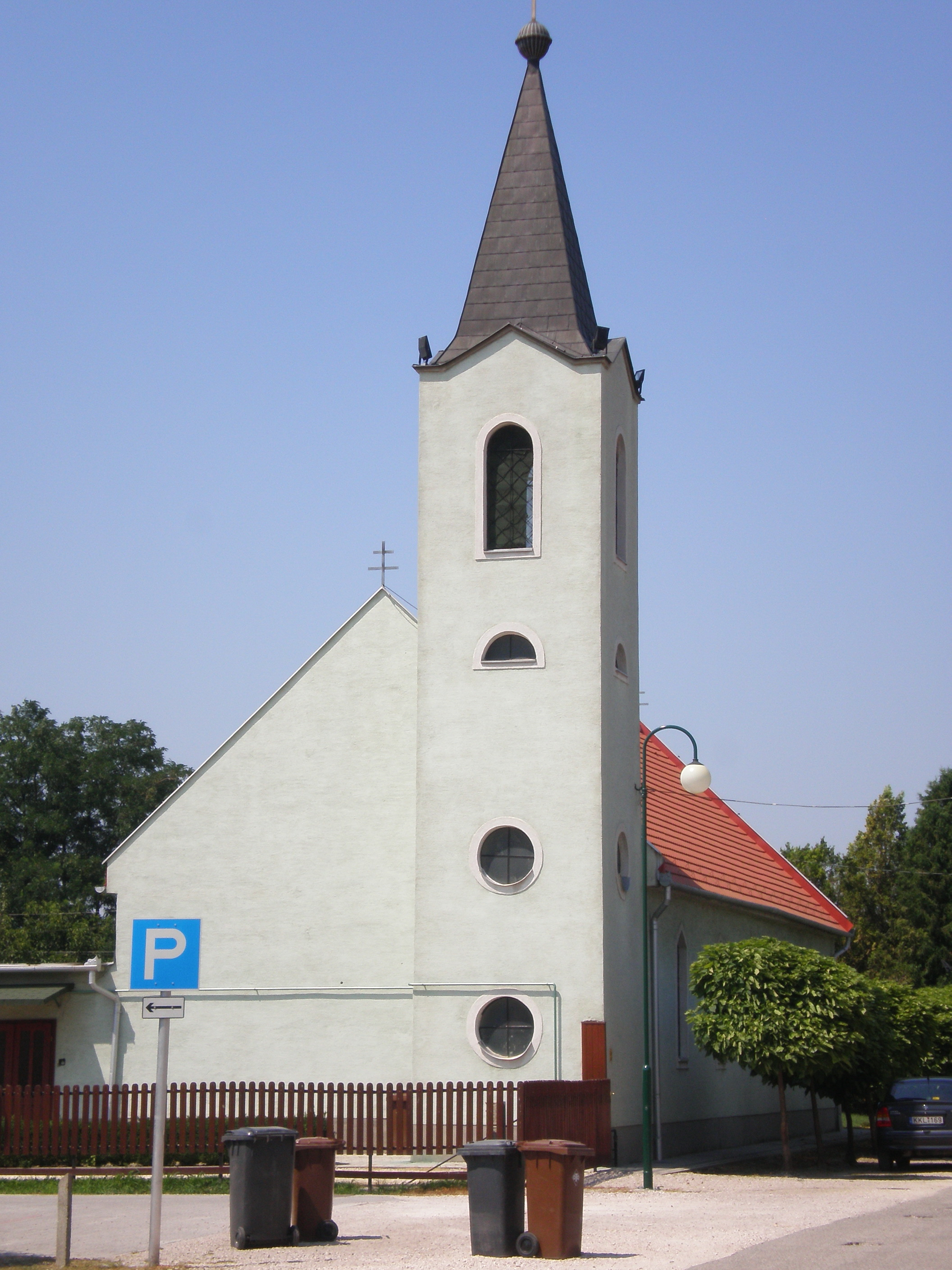 Church Győrladamér